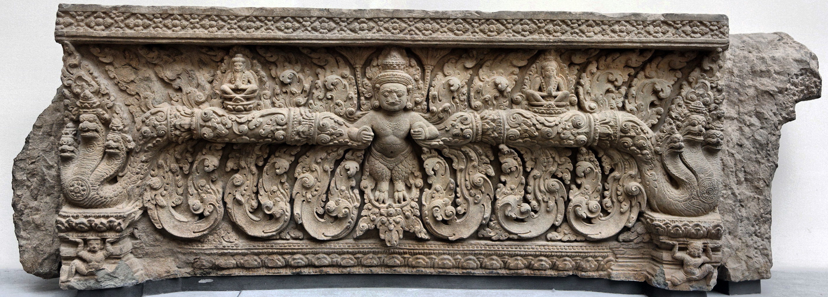 Musée Guimet, Paris: Khmer lintel